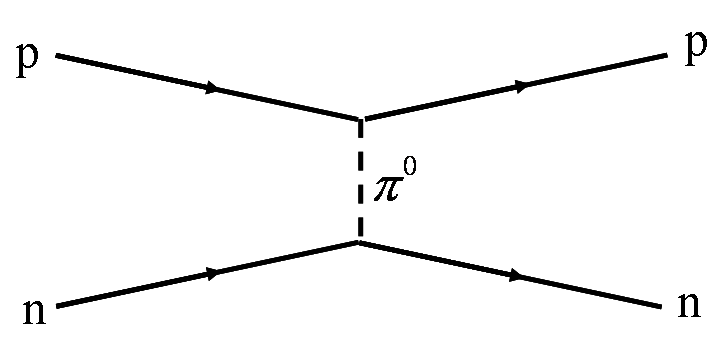 A feynman diagram of proton-neutron scattering mediated by a neutral pion. Created by me. -- SCZenz 13:06, 14 February 2007 (UTC)